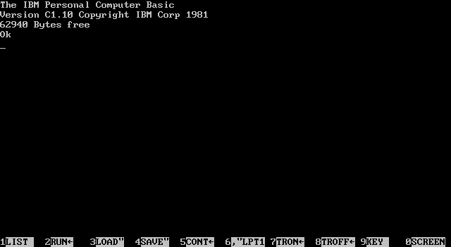 Sample screenshot of IBM Cassette BASIC opening screen.